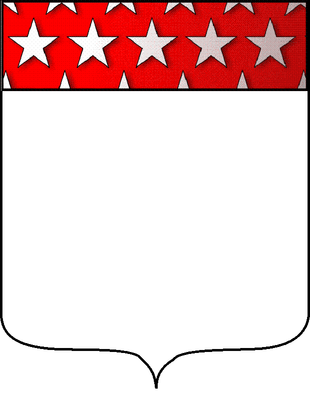 duc d`empire coat of arms